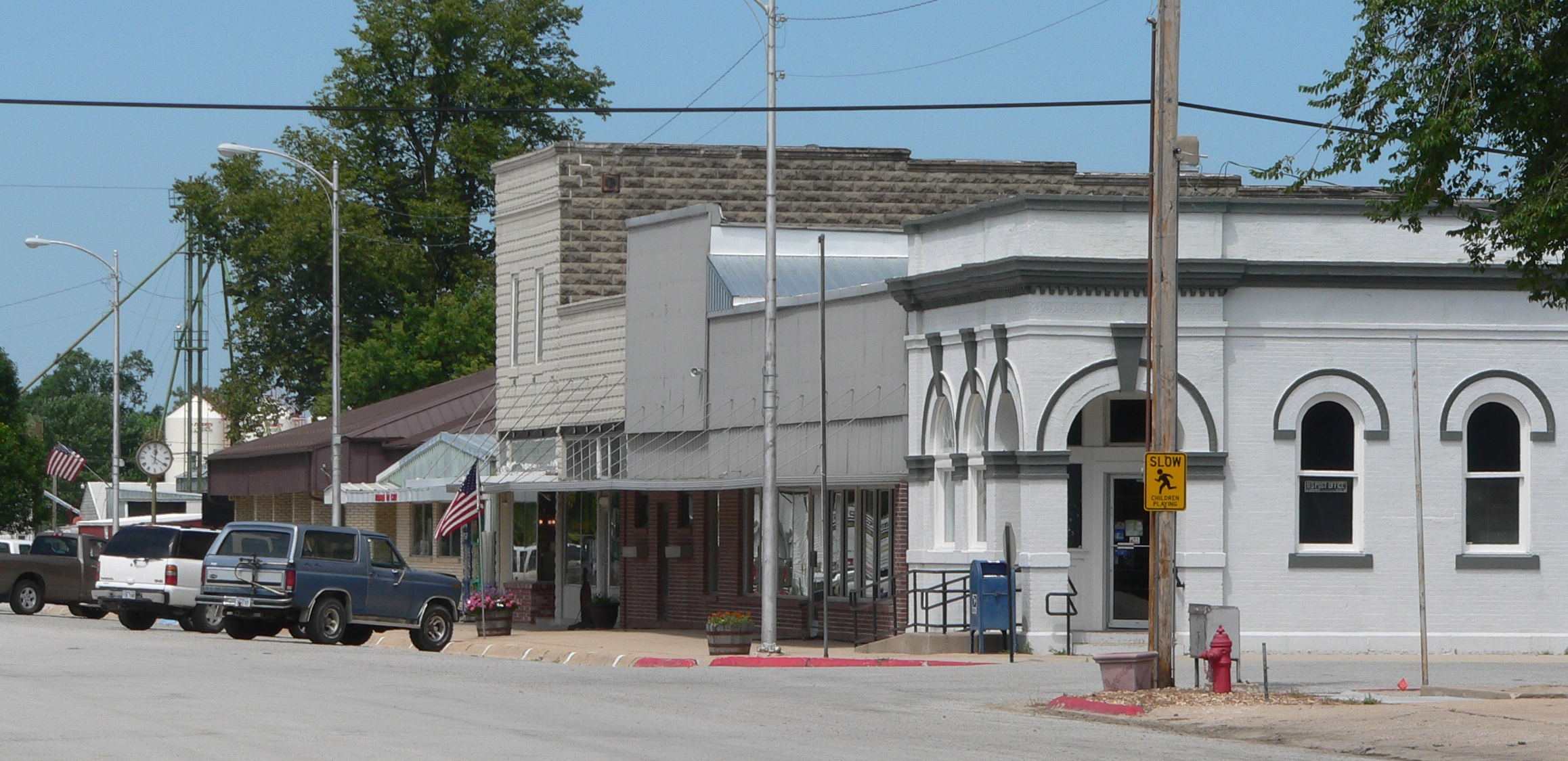 Downtown Bruning, Nebraska: north side of Main Street, looking northwest from east of Fillmore Street.